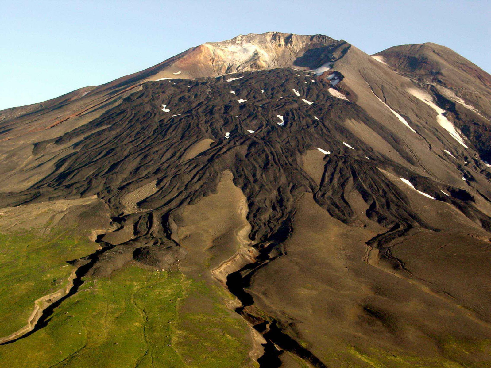 Gareloi Volcano, elevation 1573 m, in the westeren Aleutian Islands, Alaska. Levied lava flows from a 1980s eruption drape the south flank of the southern summit crater. The white zone on the crater headwall is an extensive fumarole field.